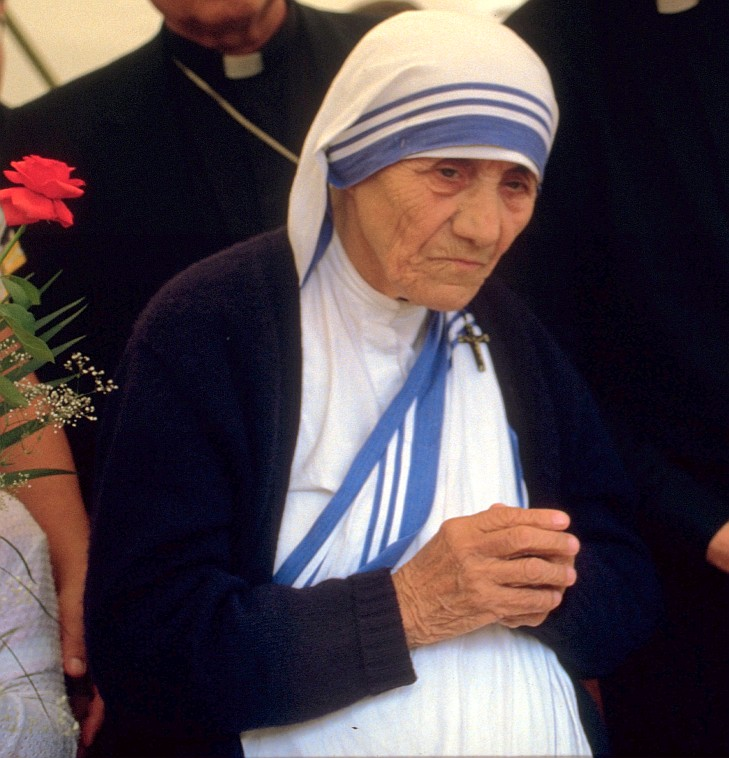 Mother Teresa of Calcutta; 1986 at a public pro-life meeting in Bonn, Germany